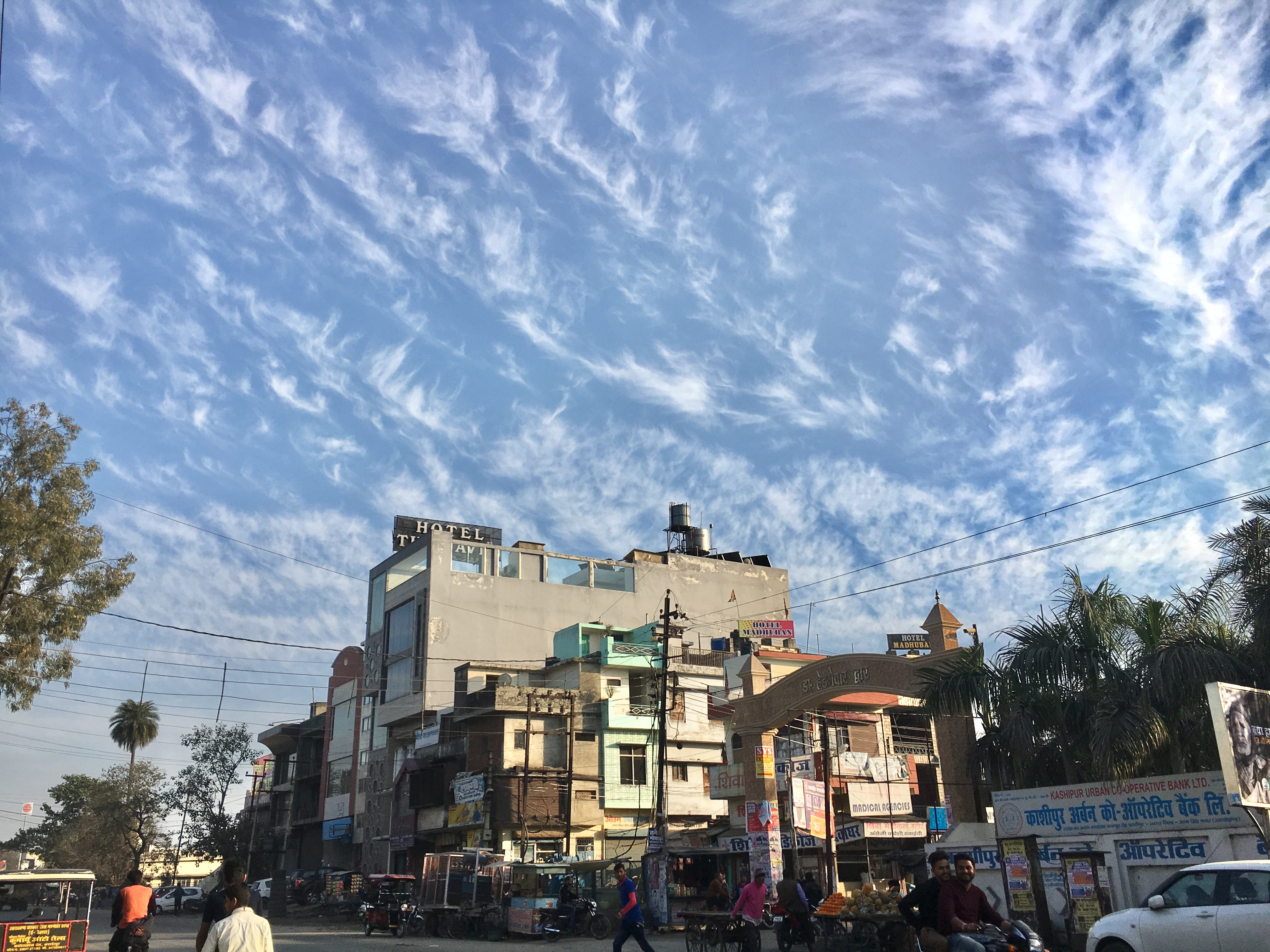 Cloudy beauty